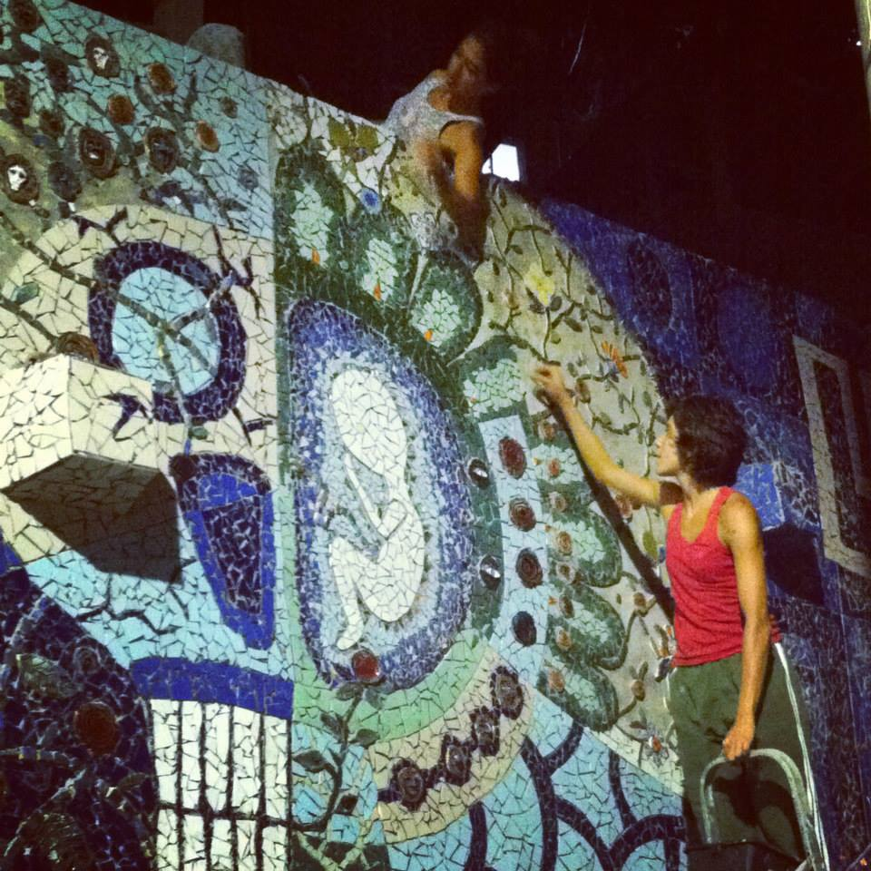 Construction of Mural Babilônia. Fragment of Life circle.